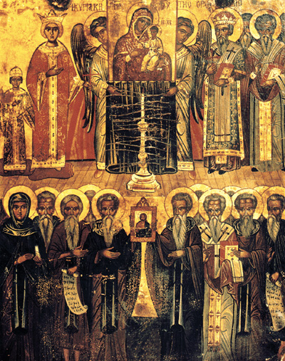 Triumph of Orthodoxy, byzantine icon